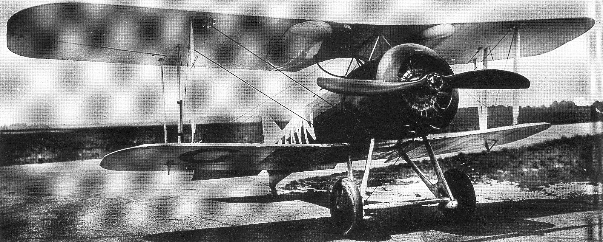 The only Gloster Grouse, G-EAYN, mid-123. Originally a Mars III. Here fitted with a Bentley BR1 rotary, it was later re-engined with an Armstrong-Siddeley Linx and typed MkII.